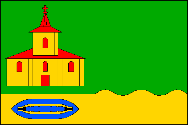 Municipal flag of Bystré village, Rychnov nad Kněžnou District, Czech Republic.